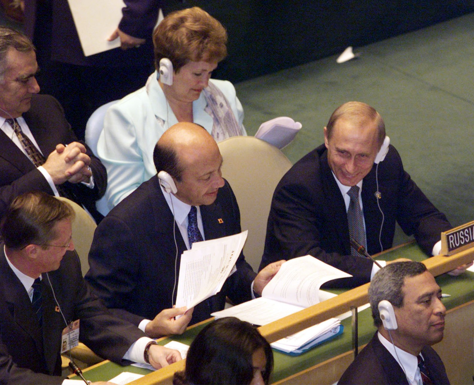 NEW YORK. A Millennium Summit meeting. President Vladimir Putin and Foreign Minister Igor Ivanov.